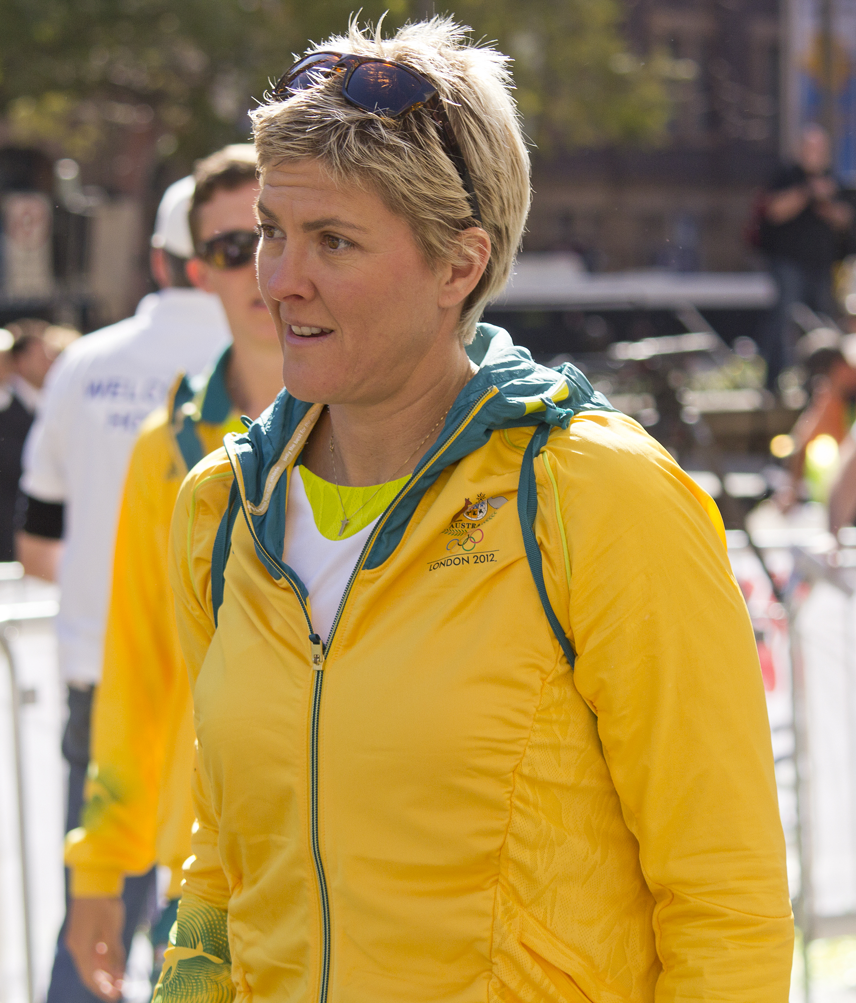 Natalie Cook at the Welcome Home parade in Sydney.